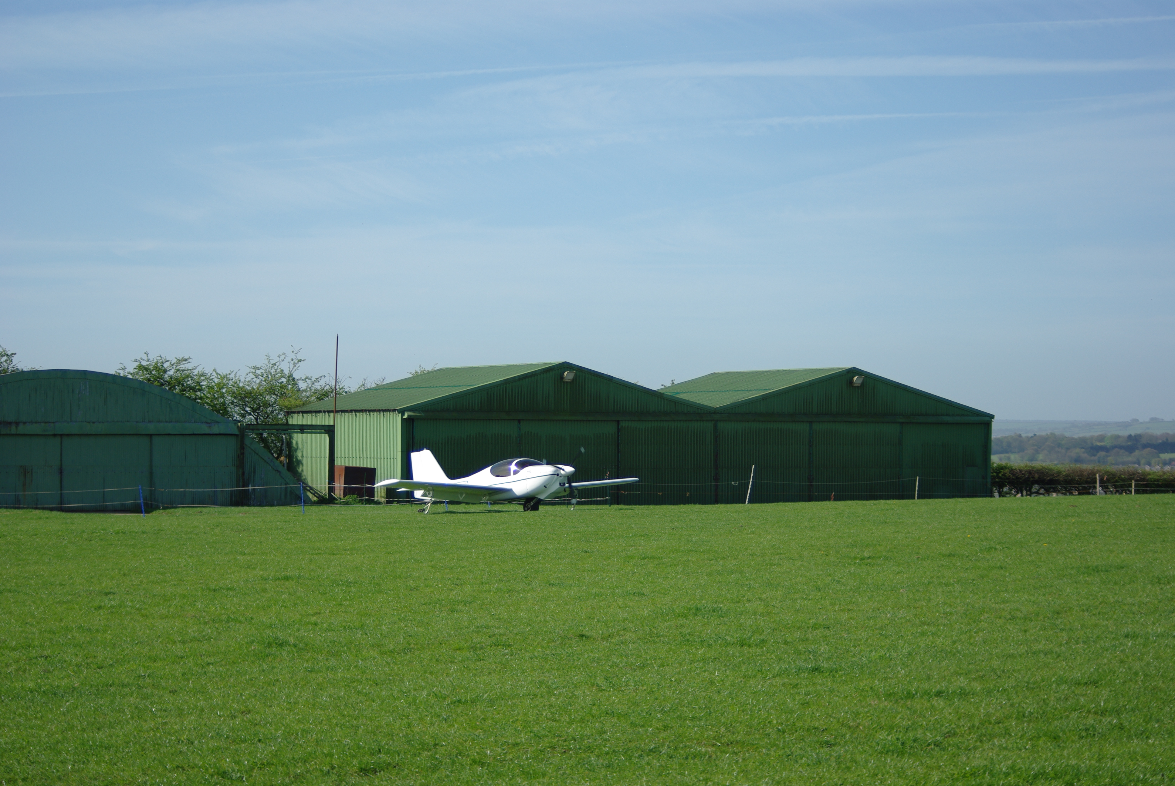 Hangers at Coal Aston airfield with Europa SX G-BYSA